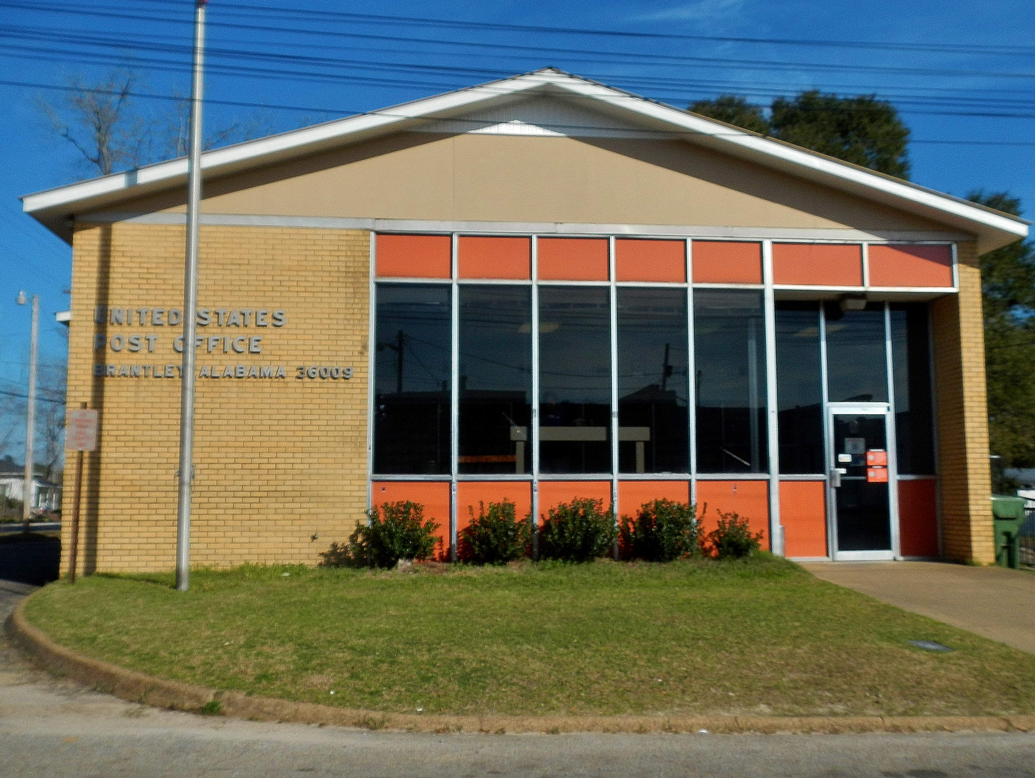 This is a photograph of the post office in Brantley, Alabama.